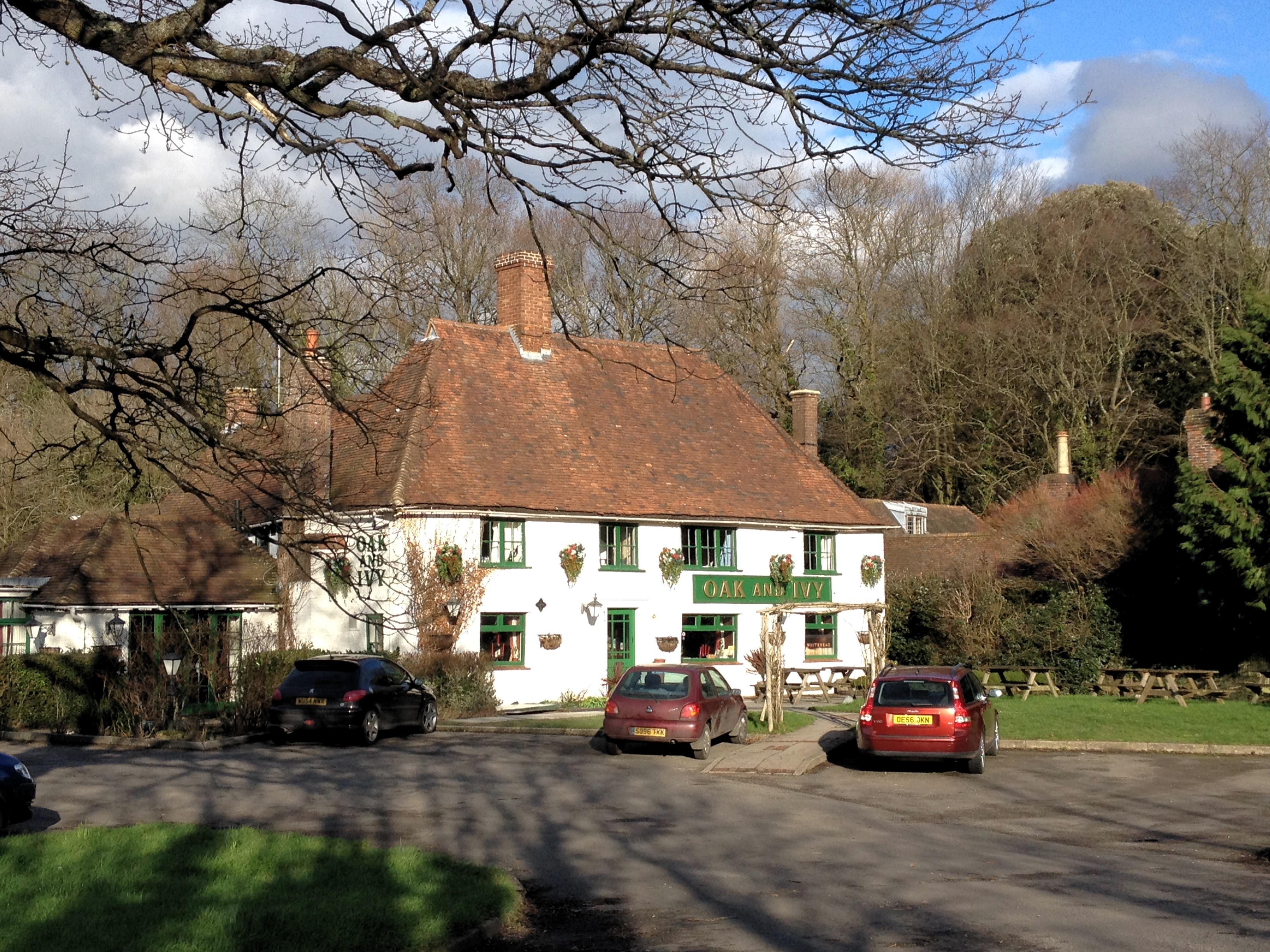 The Oak and Ivy Inn, Hawkhurst once the stomping ground of a notorious group of smugglers, known as the Hawkhurst Gang.